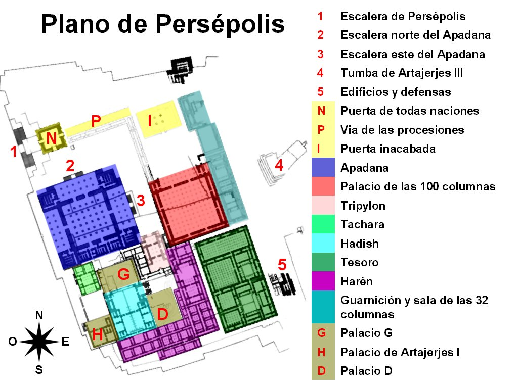 Sheme of the Persepolis royal Complex, spanish version